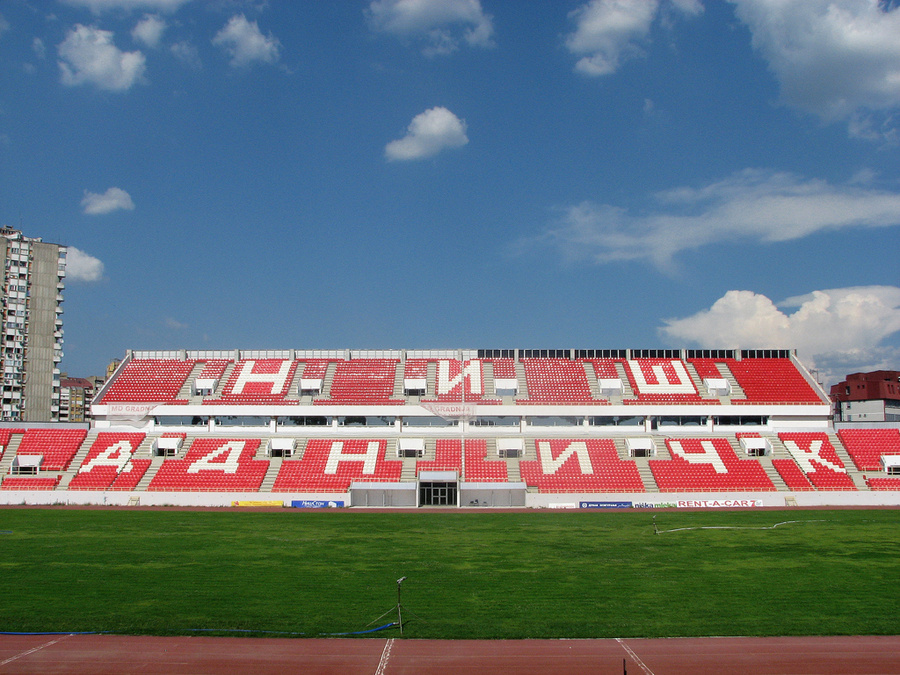 Stadion Čair - Aleksandar Trajković (autor fotografije/photographer)